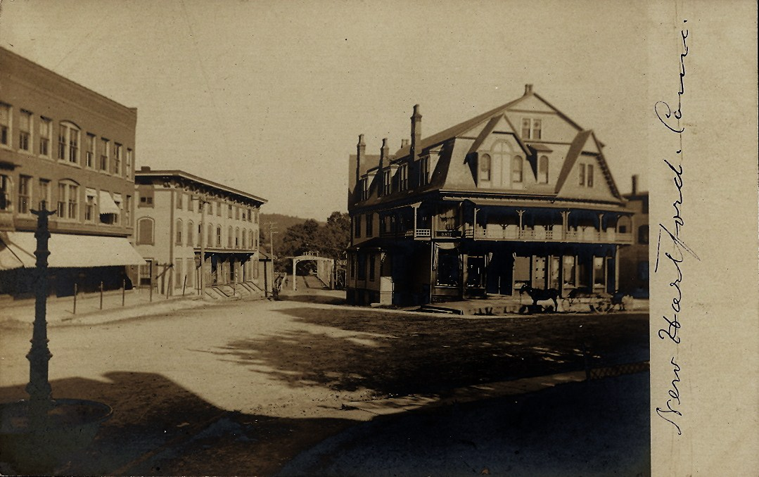 Postcard picture of street scene in New Hartford, Connecticut